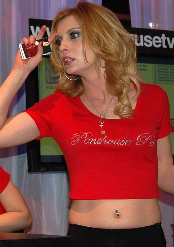 Penthouse Pet Kelle Marie at the 2006 AEE convention